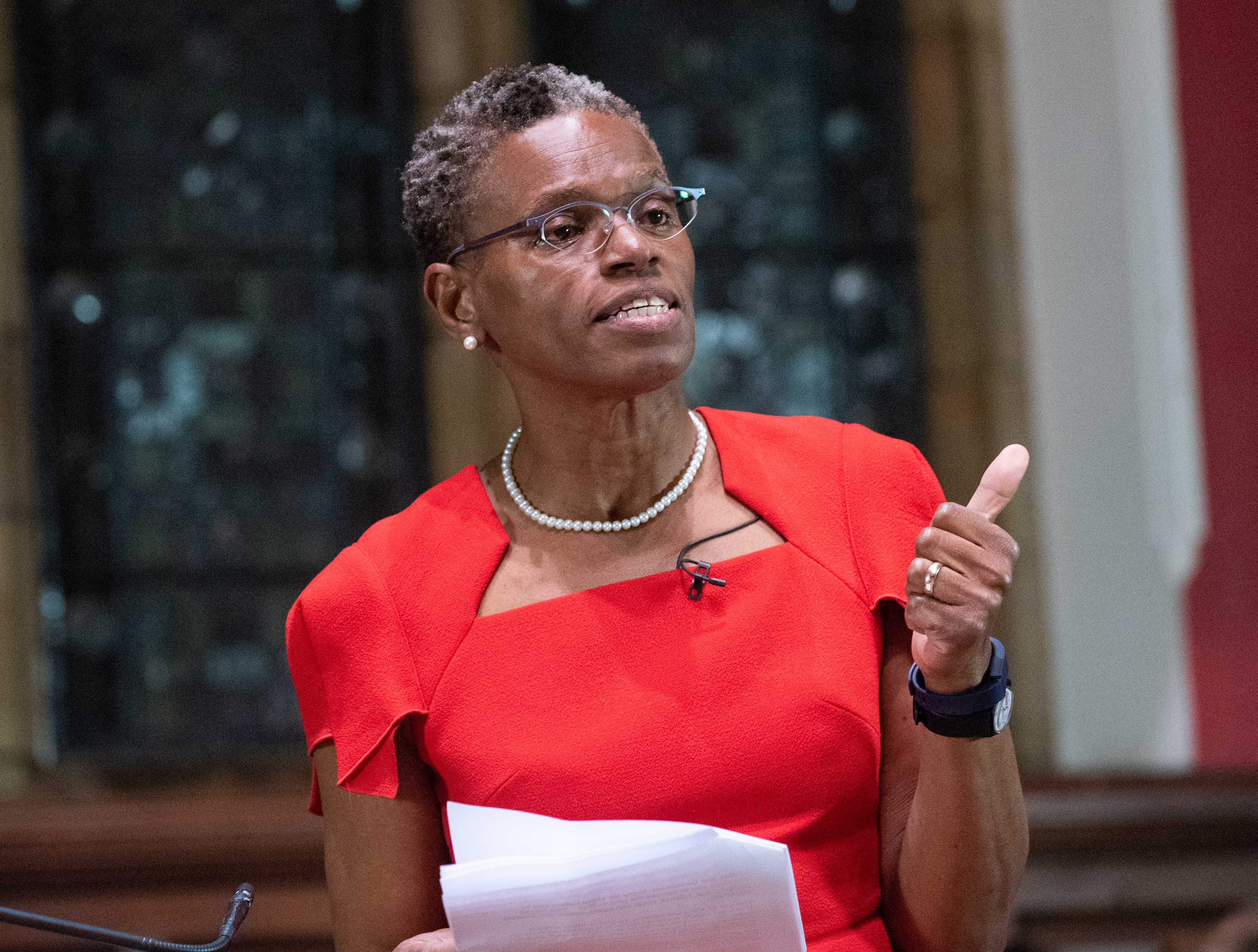 Ijeoma Uchegbu arguing against the proposition at the Oxford Union Science Debate 2018